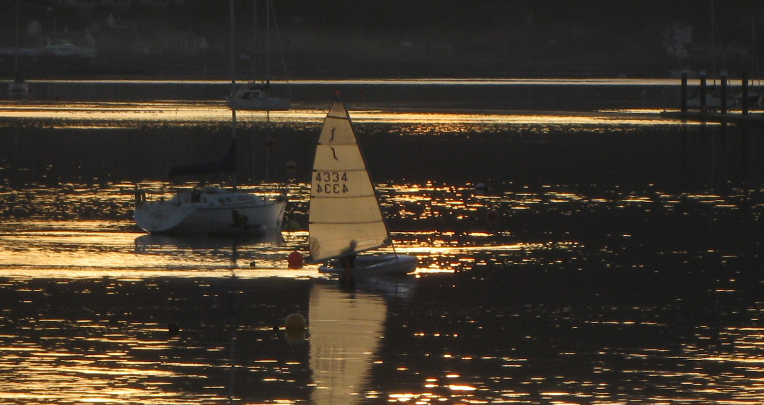 Off Helensburgh Sailing Club